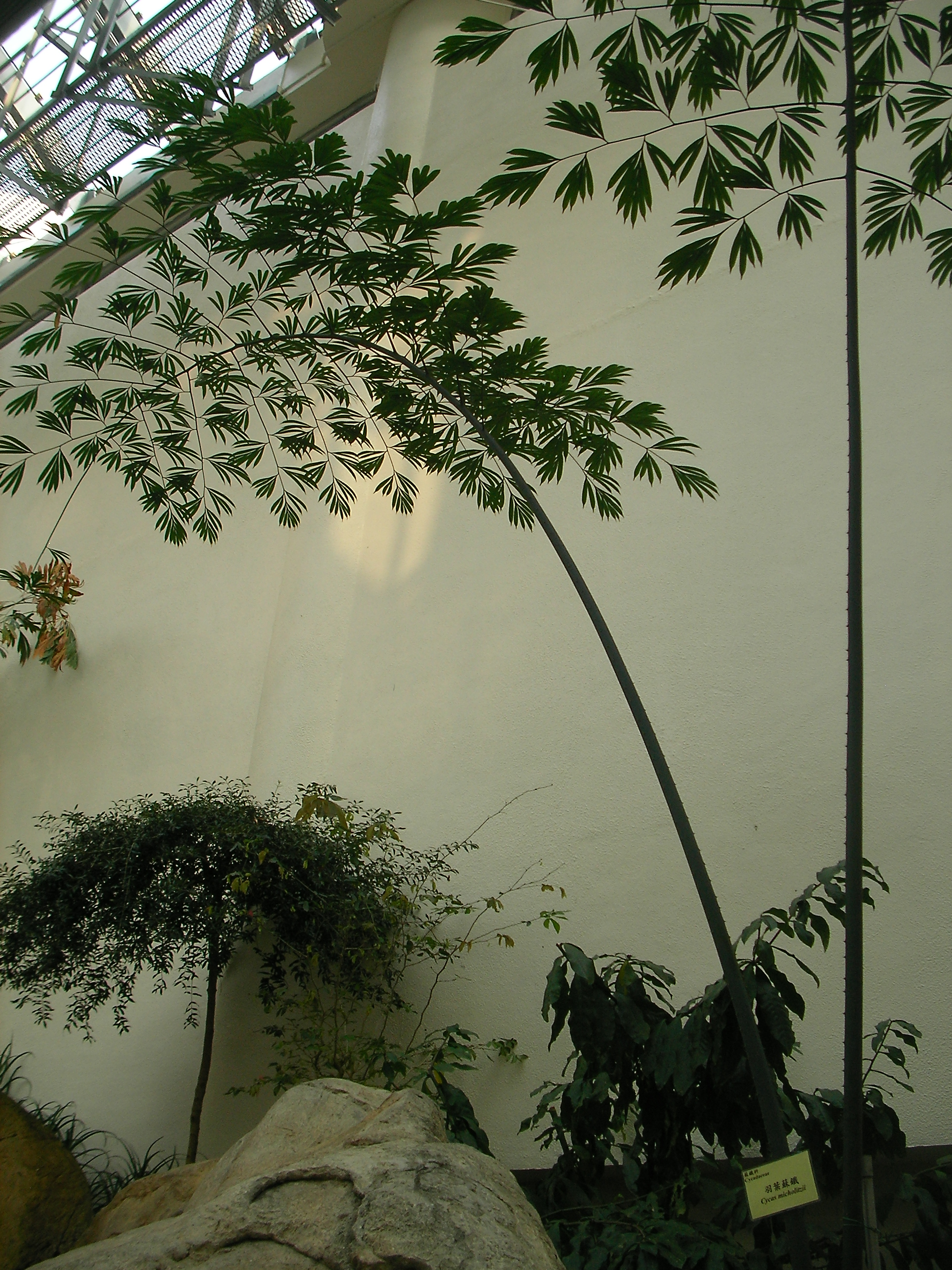 A Royal sago at Forsgate Conservatory, Hong Kong Park (Not C. micholitzii as the plant label would suggest)